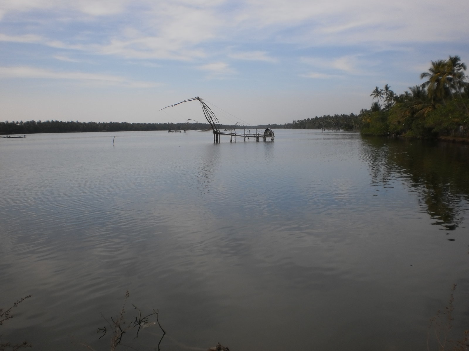 China Fishing Net or Cheena Vala near Cherai Beach This media file is uploaded with Malayalam loves Wikimedia event - 2.